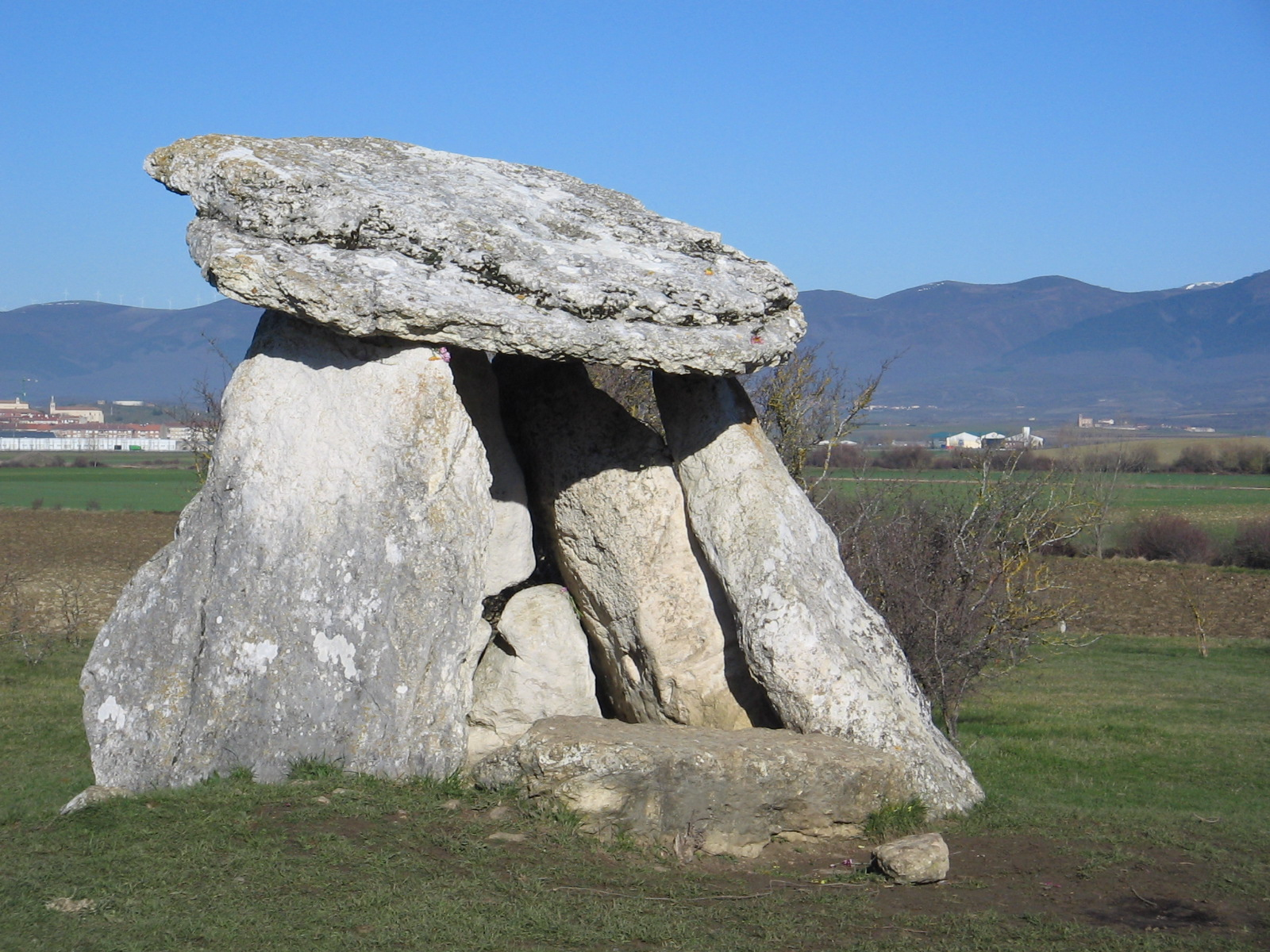 Dolmen Sorginetxe, near Agurain (Basque Country)